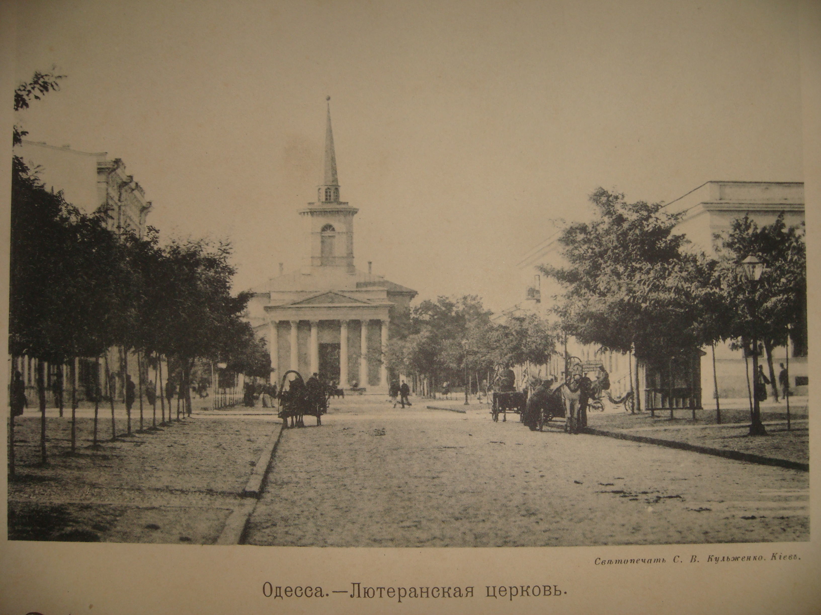 St. Paul Cathedral in Odessa. Original building, constructed 1825-1827 years.